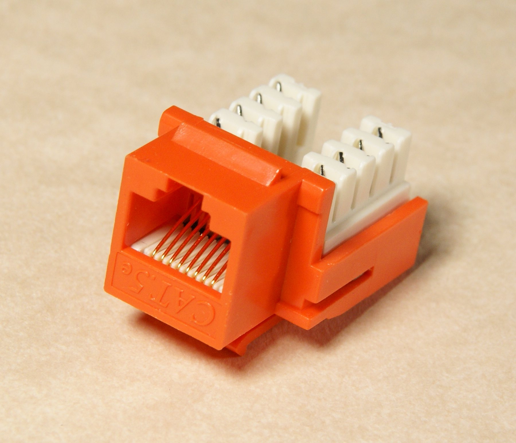 A keystone module (electrical connector) for a CAT5 Ethernet network cable.